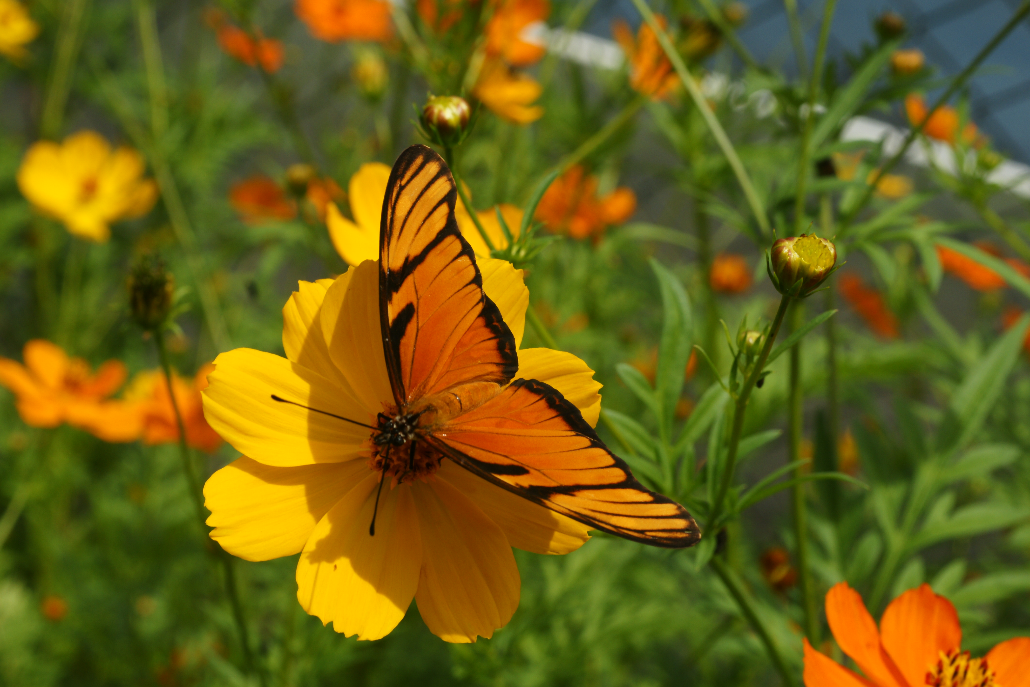 Juno Longwing at La Garita, Alajuela, Costa Rica